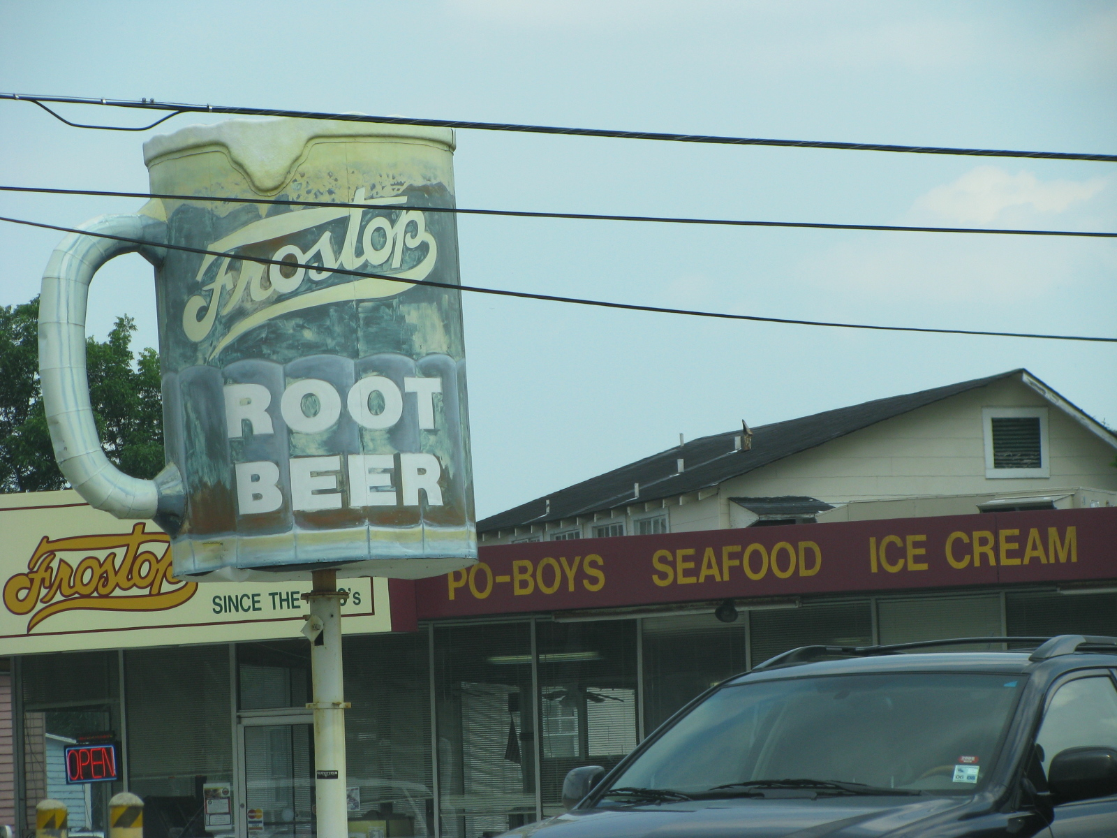 Frostop, Baton Rouge, LA